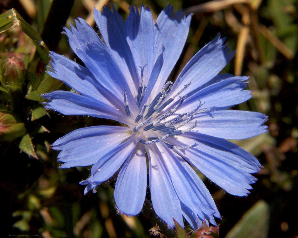 jpeg image, Chicory flower head, Cichorium intybus